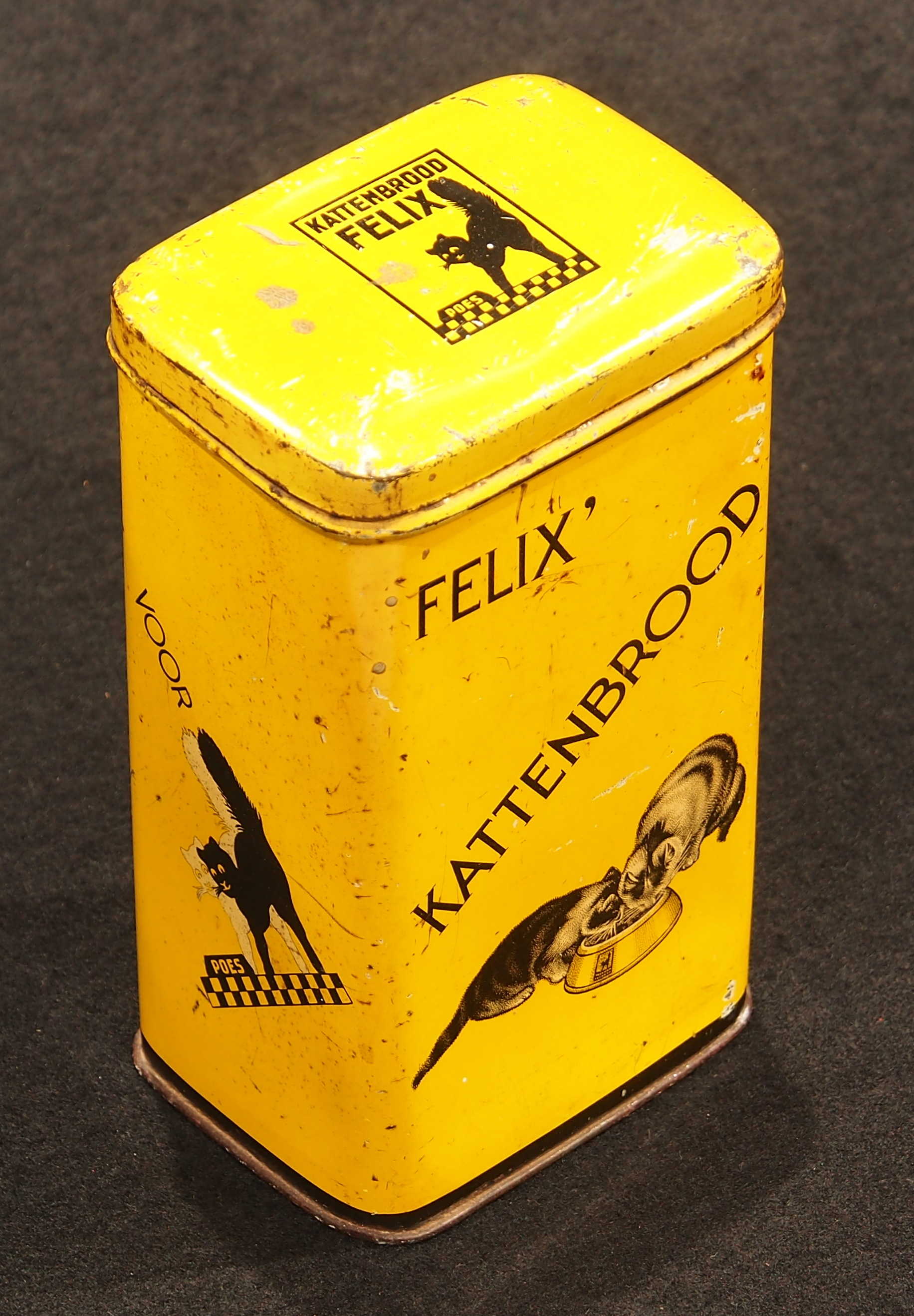 Very old packaging of a Dutch product that is not produced and/or not sold any more.